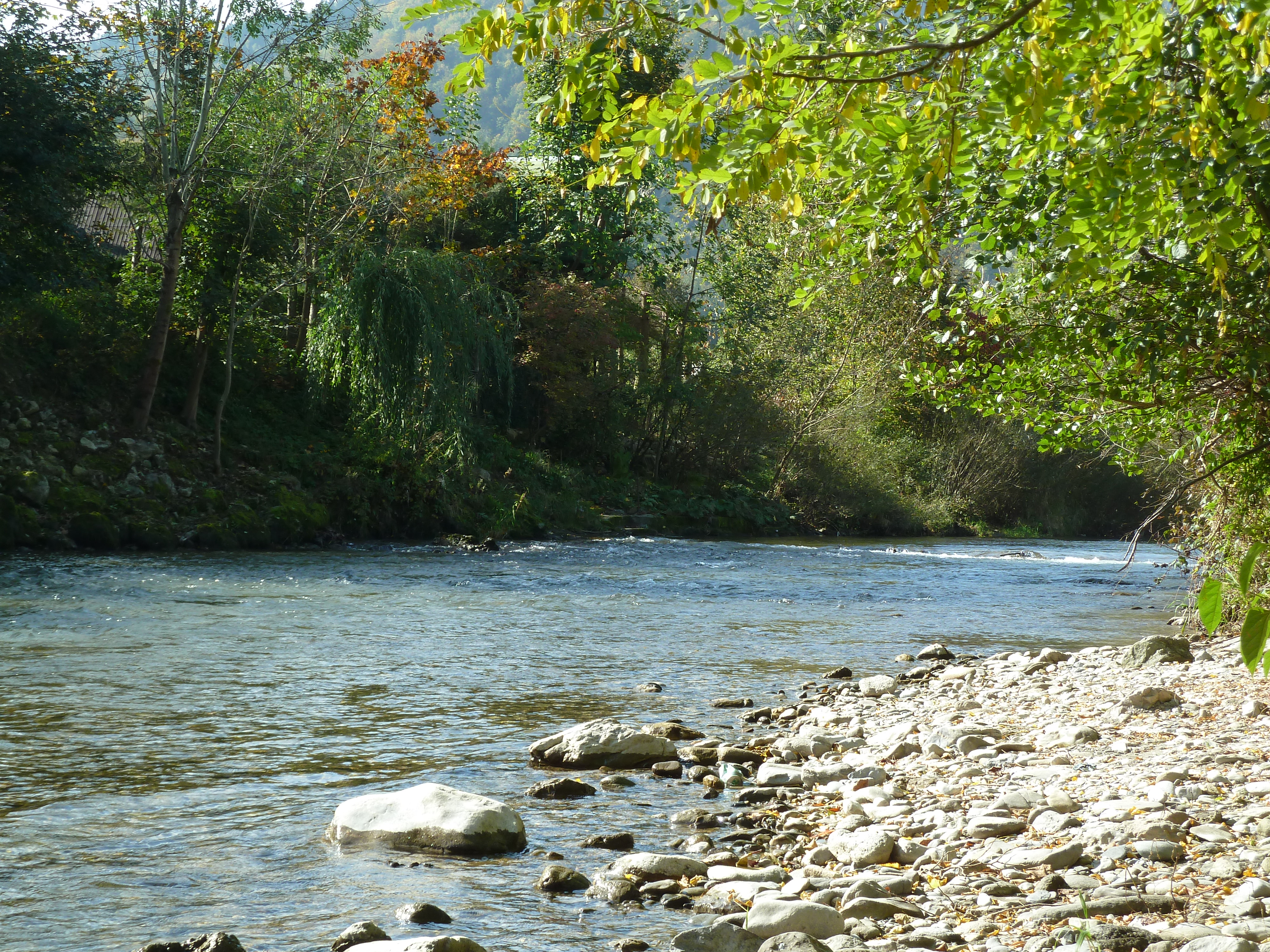 Selška Sora River above Škofja Loka